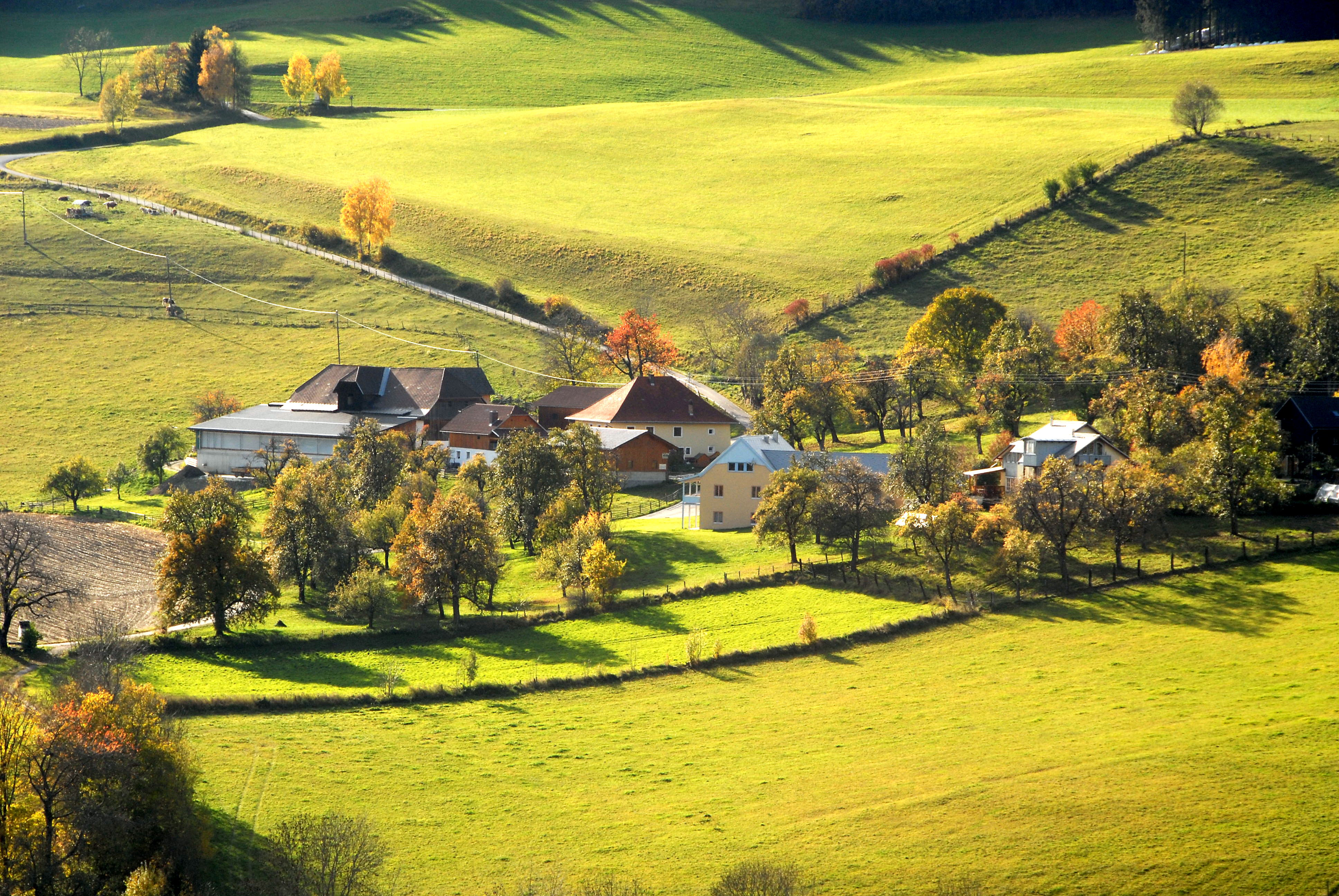 Pflausach in the community Liebenfels, district Saint Veit on the Glan, Carinthia, Austria